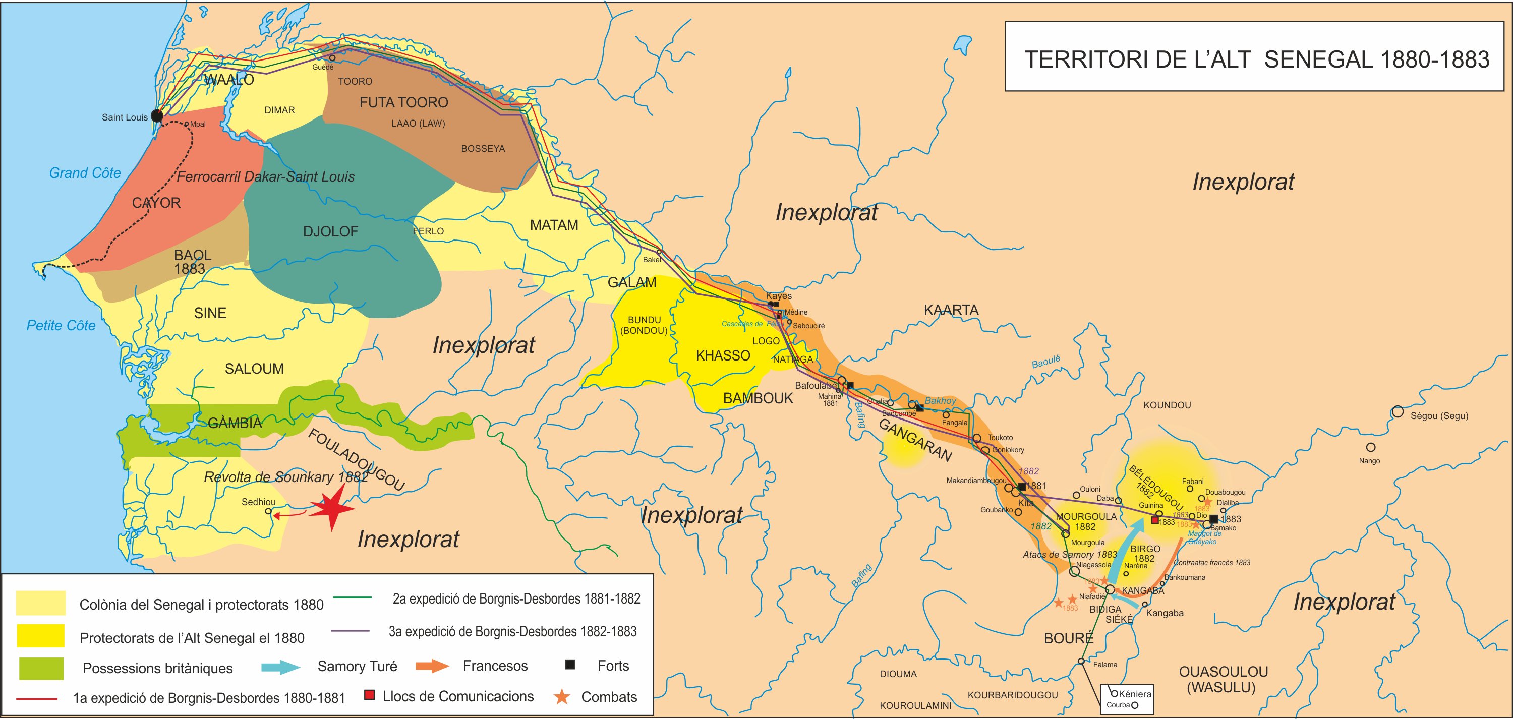 Senegal-Mali 1881-1883